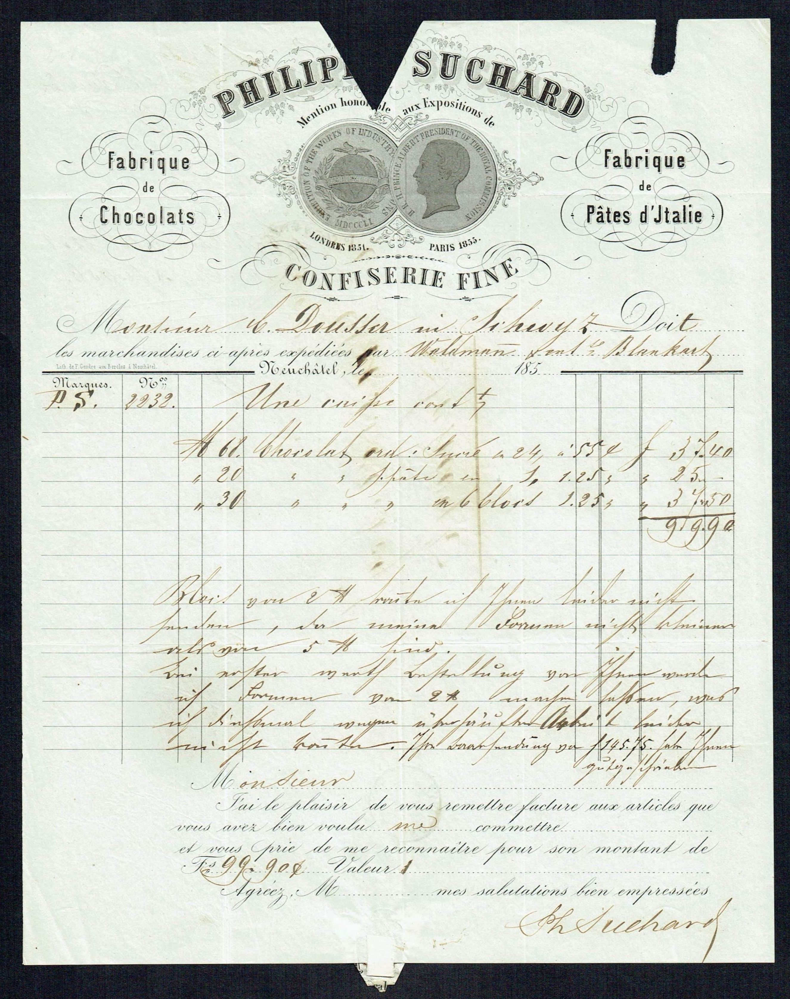 Bill of the company Philippe Suchard, issued 14. May 1875